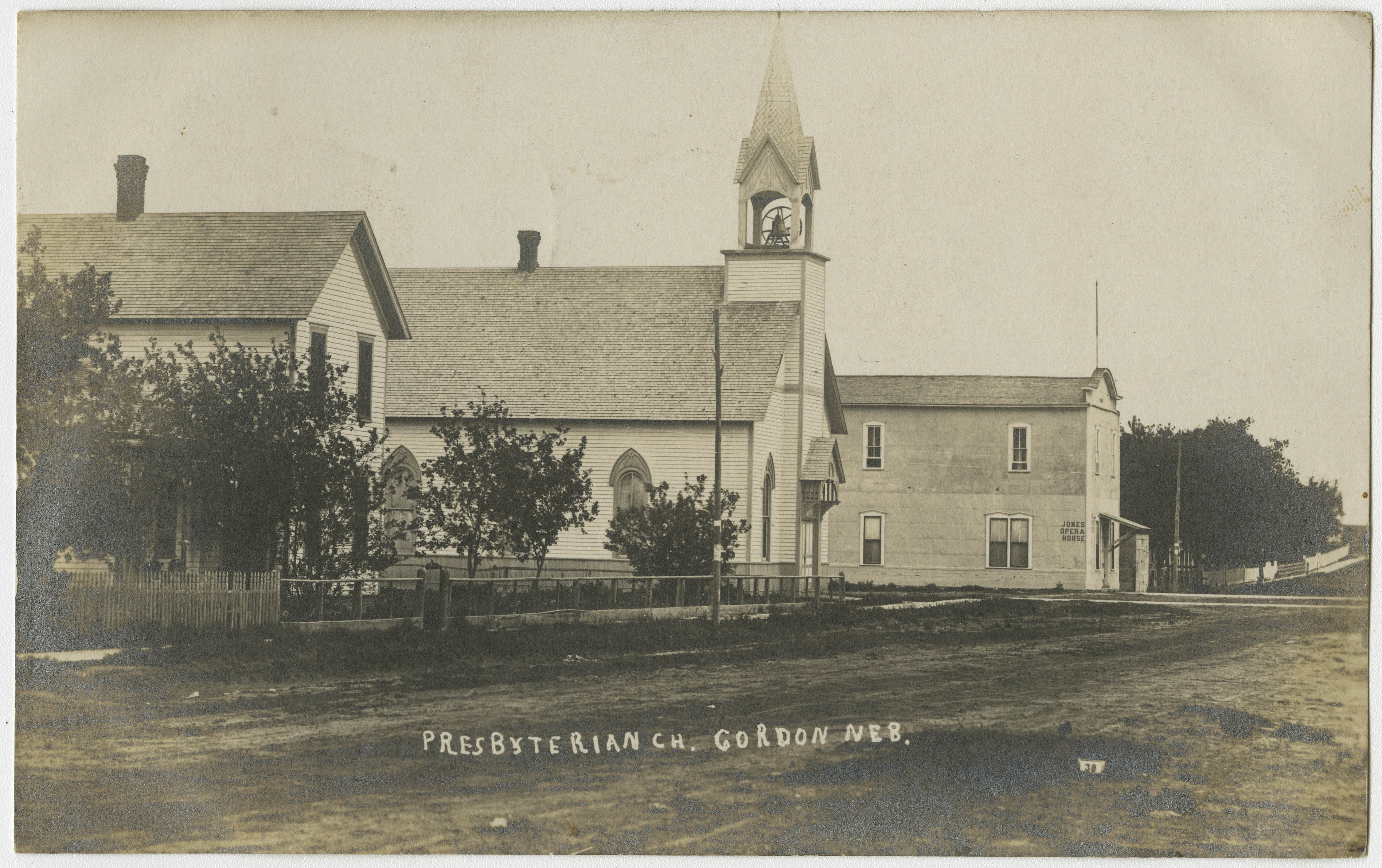 Presbyterian Church in Gordon, Nebraska from a pre-1923 postcard From RG 428, Postcard Collection, Presbyterian Historical Society, Philadelphia, Pennsylvania.